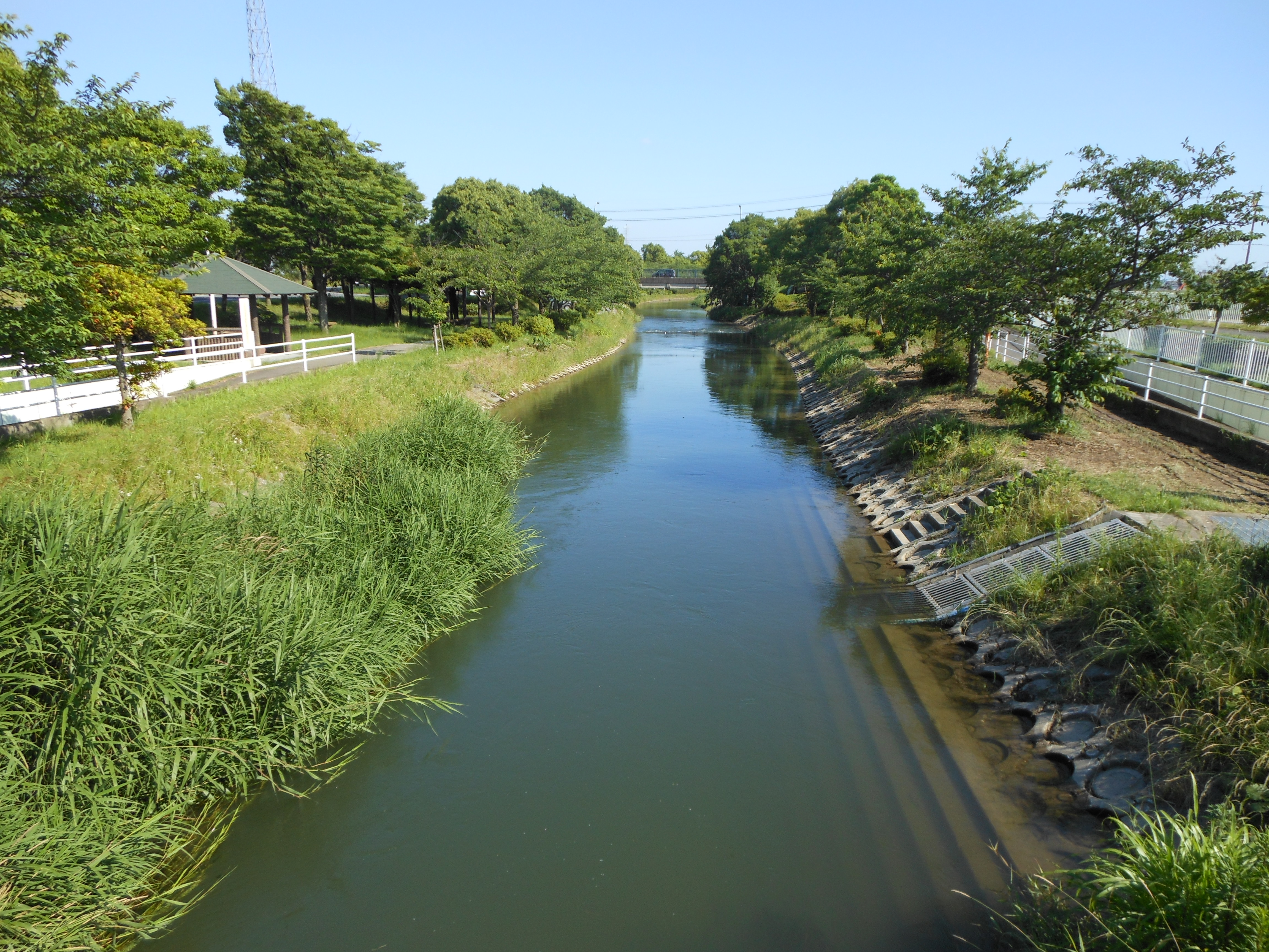 The Tafuse River, taken from Shin-Nagase Bridge in Saga, Saga.